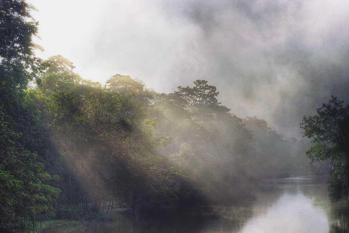 The scenic beauty of river Kolong in Nagaon, Assam in India